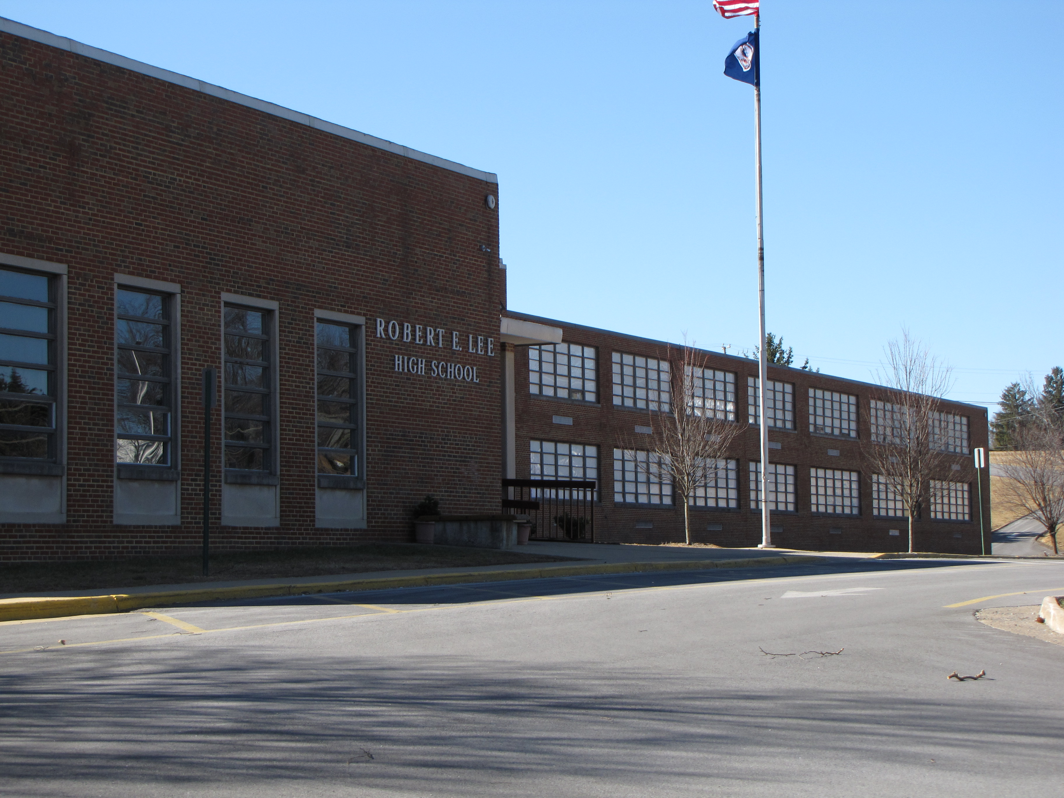 Robert E. Lee High School in Staunton, Virginia.